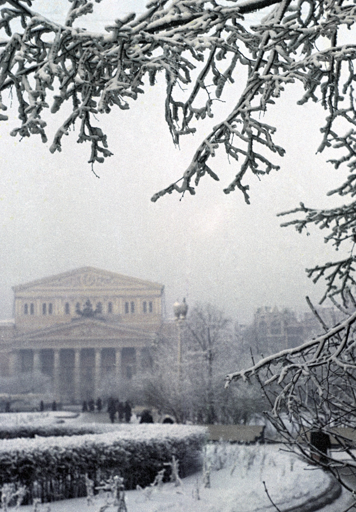 “Winter in Moscow”. Winter morning on Moscow's Teatralnaya Ploshchad [Theater Square].